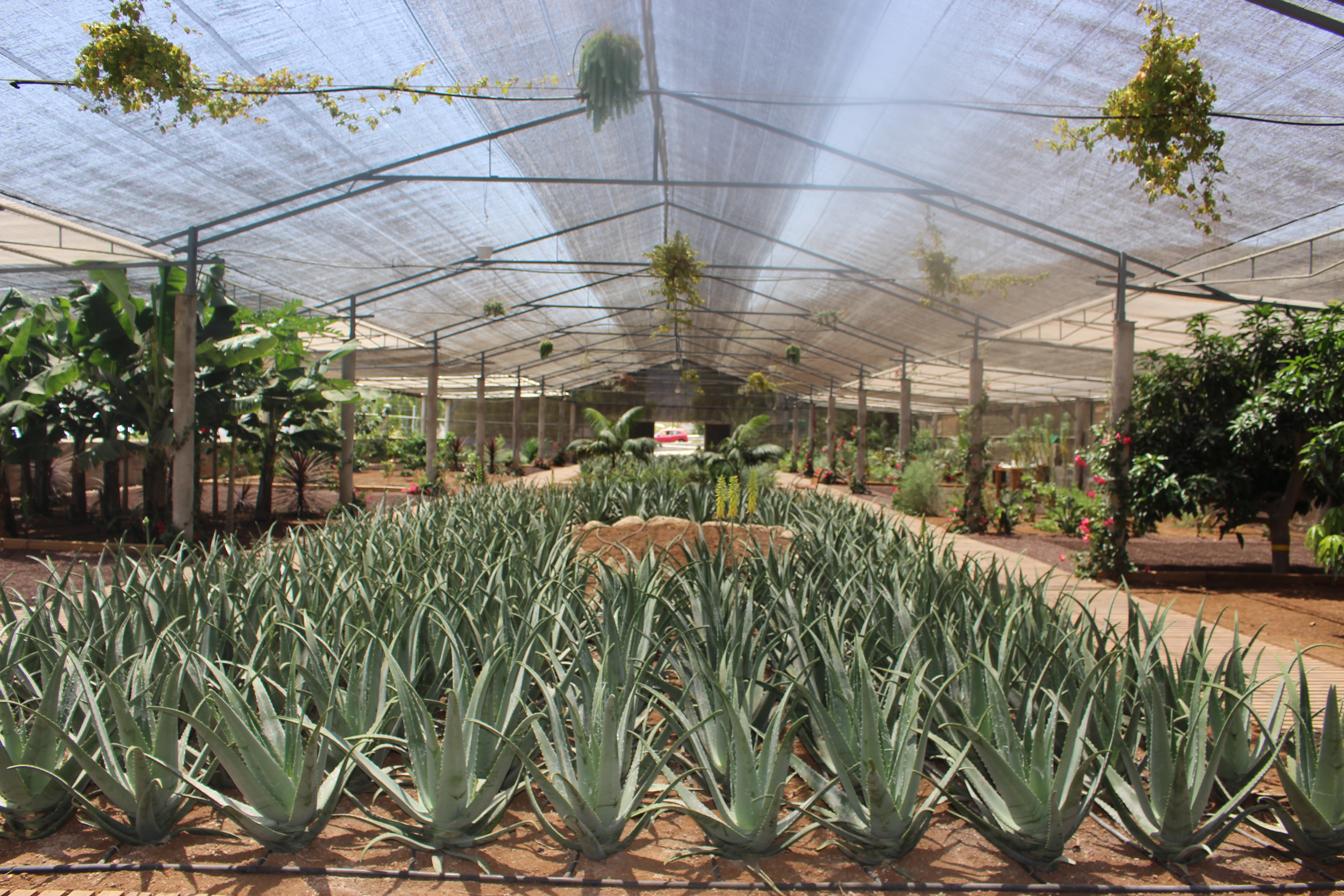 Aloe vera farm Tenerife